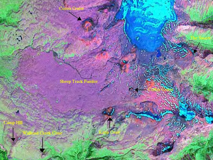 Edziza cinder cones and Sheep Track Pumice.